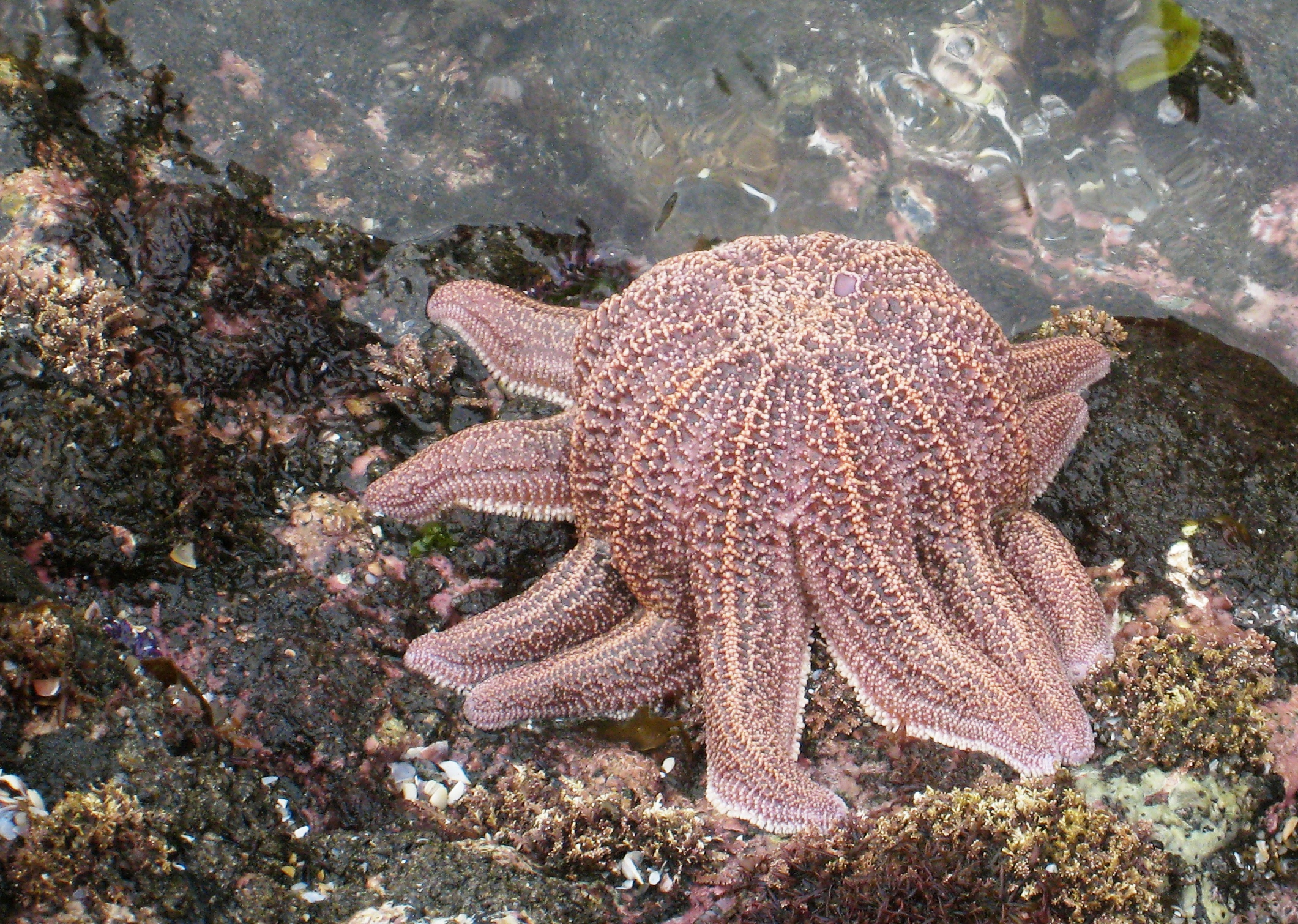 Reef starfish (Stichaster australis) apparently lifting itself out from the rock, probably feeding on a mussel. This view is from above; water below the starfish is visible along the top of the frame. Found at low tide level on the north side of Lion Rock, Piha, near Auckland, New Zealand.